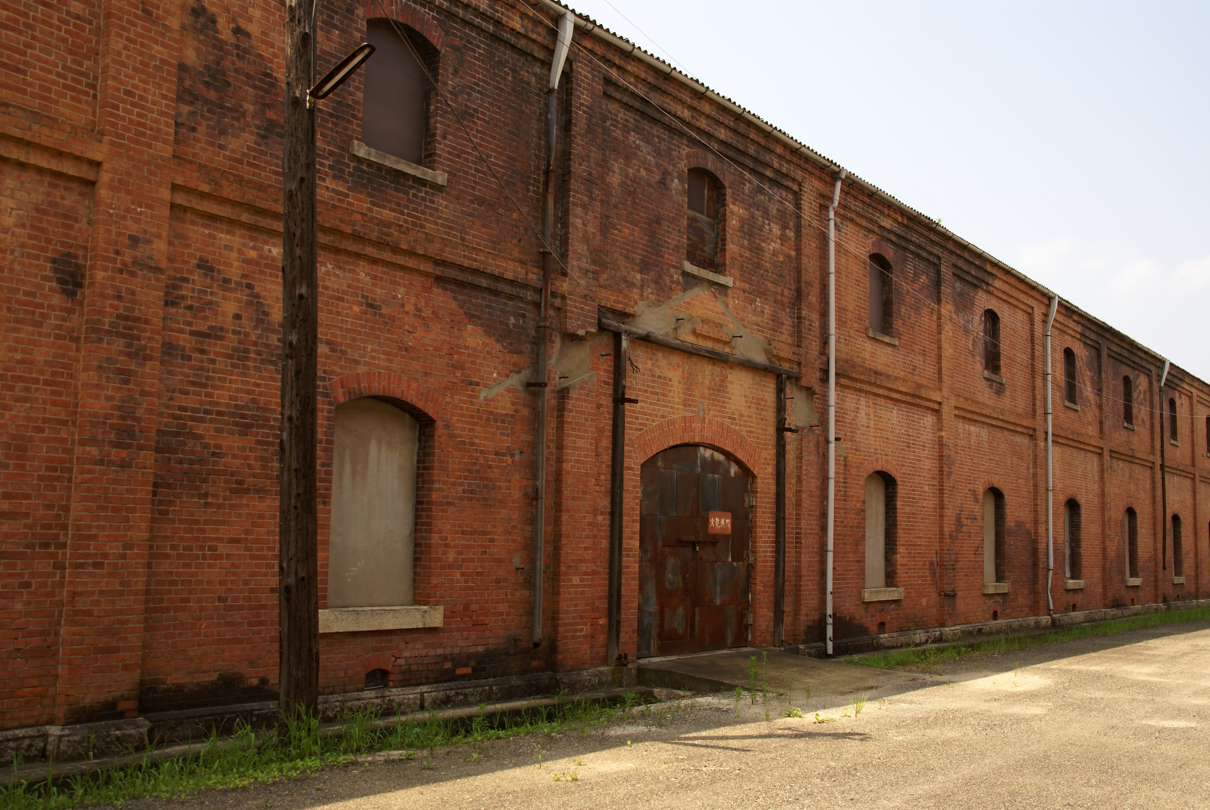 Maizuru Red Brick Warehouses in Maizuru, Kyoto prefecture, Japan